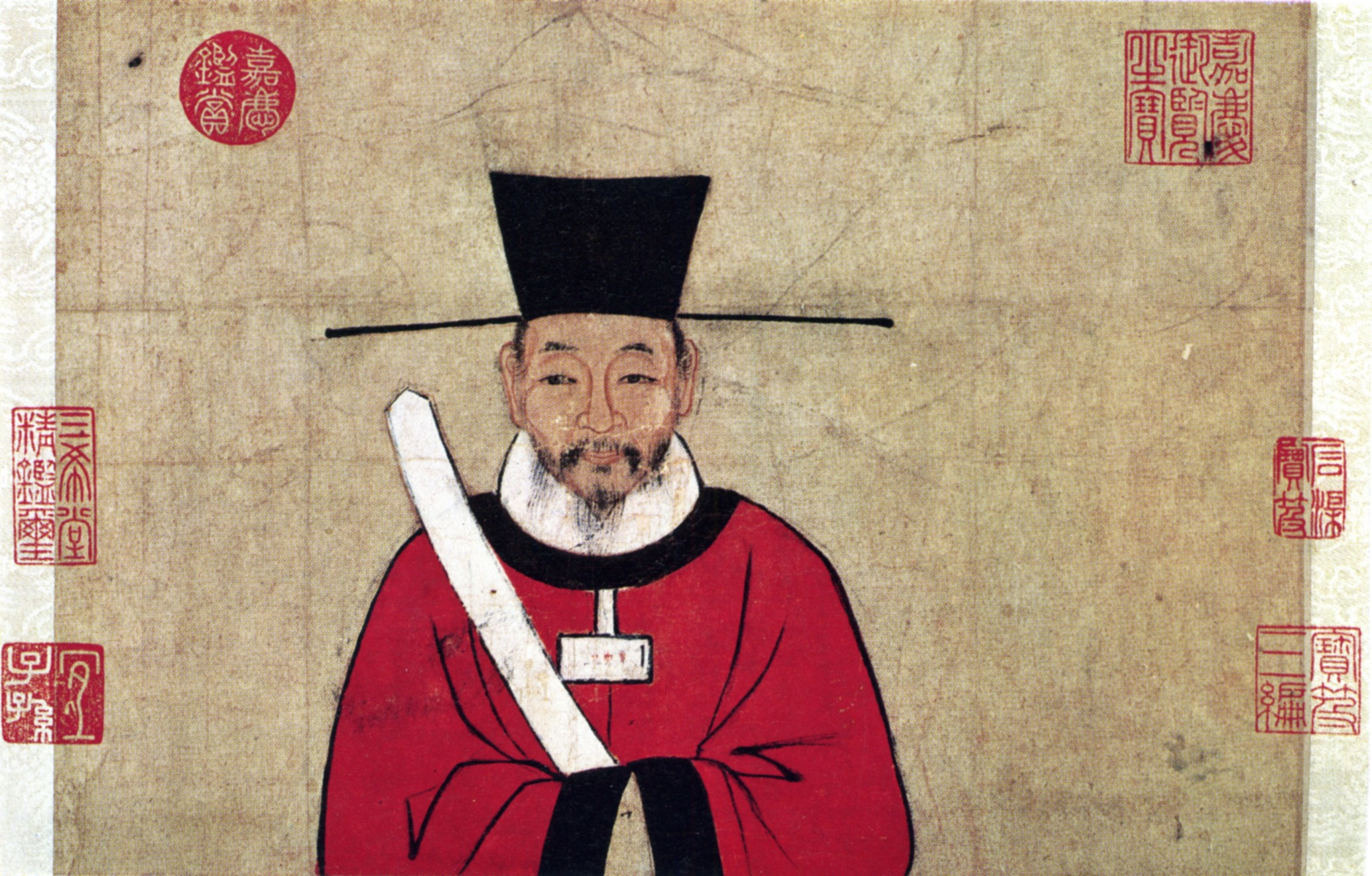 Contemporary painting of Sima Guang (司馬光) of the Song dynasty. Hand scroll, color on paper. Size 24.8 x 34.8 cm (height x width). Painting is located in the National Palace Museum, Taipei. (See: Page 102 of 故宮圖像選萃 (Gu gong tu xiang xuan cui) Masterpieces of Chinese Portrait Painting in the National Palace Museum. Taipei: National Palace Museum. 1971.)